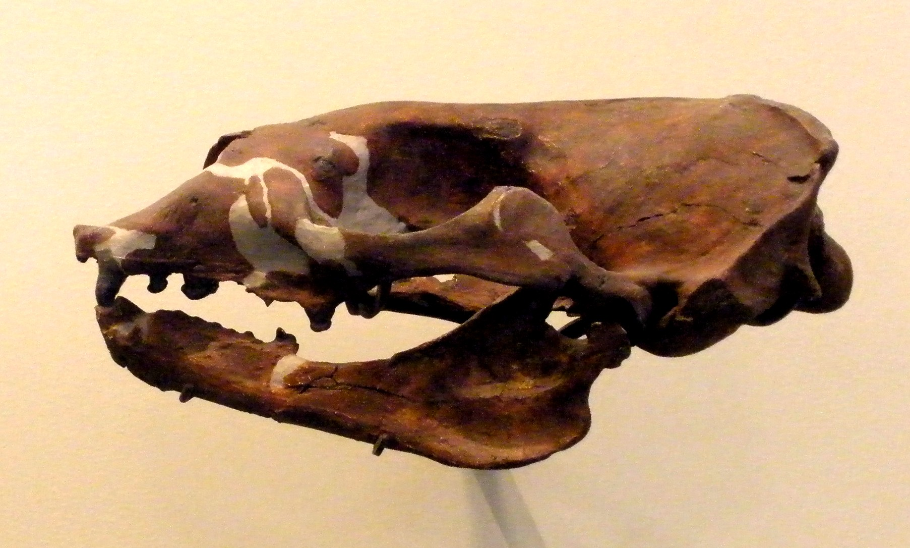 Fossil of Piscophoca pacifica, a fossil seal